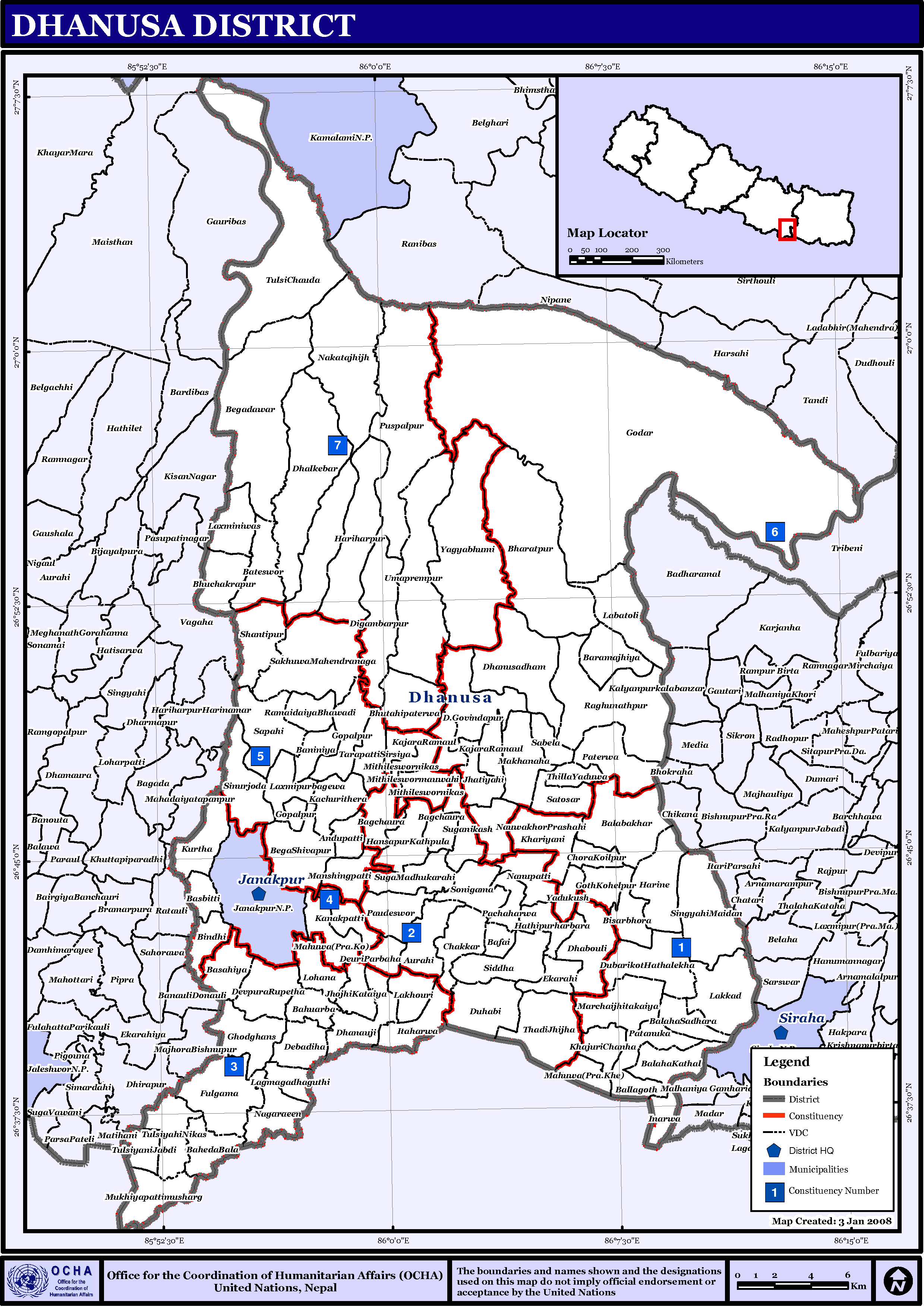 Map displaying Village Development Committees in Dhanusa District, Nepal